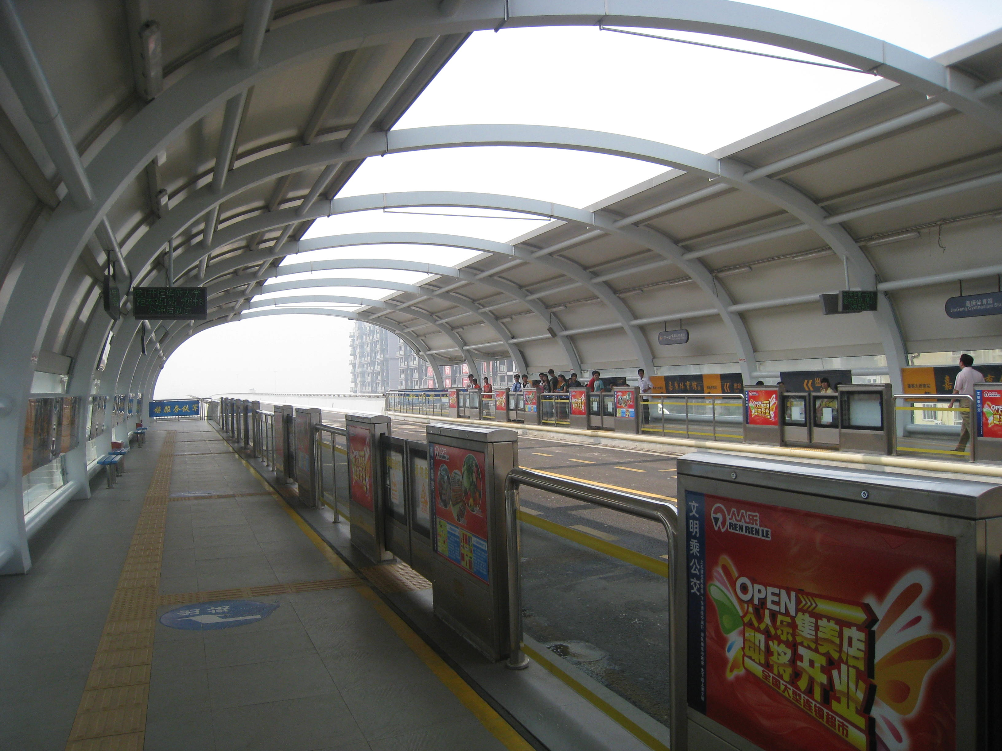 Xiamen Jiageng Gymnasium BRT Station